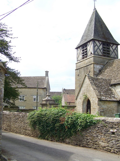 The Church of St Andrew, Leighterton 13th century Grade II listed parish church restored in 1877 by Waller and Son.